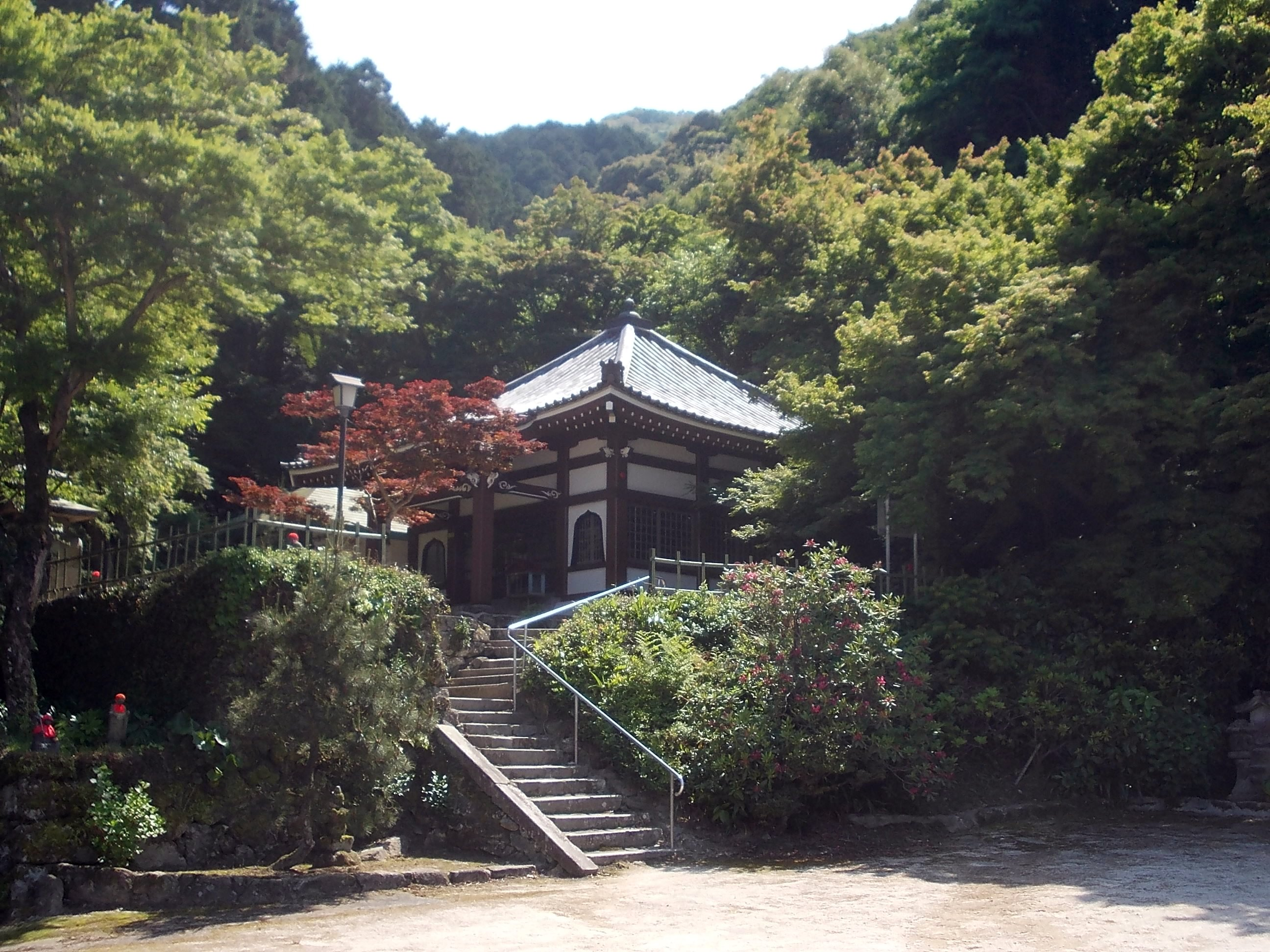 Shokaku-ji Temple (aka. Aburayama-kannon), Jonan-ku, Fukuoka, Japan.